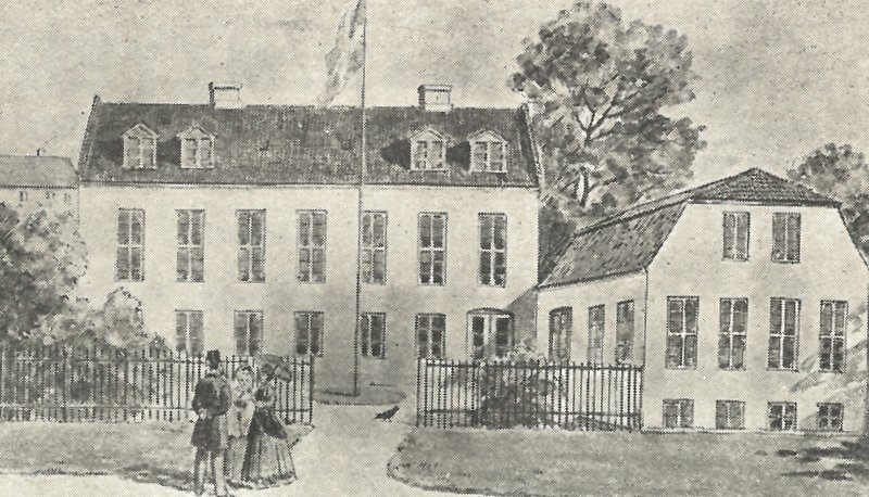 Store Ravnsborg in Nørrebro, Copenhagen, Denmark18801880